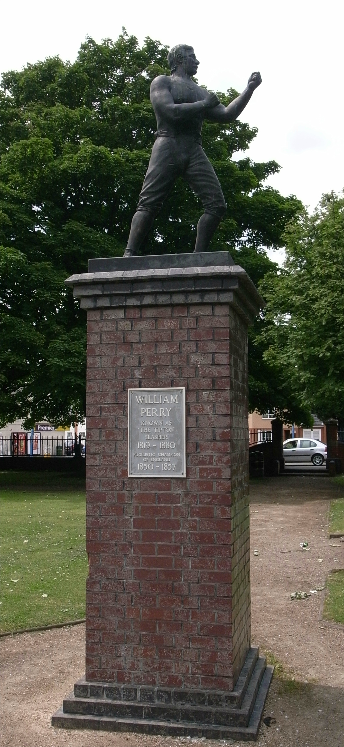 Statue of William Perry (boxer) in a park in Tipton, West Midlands, England.